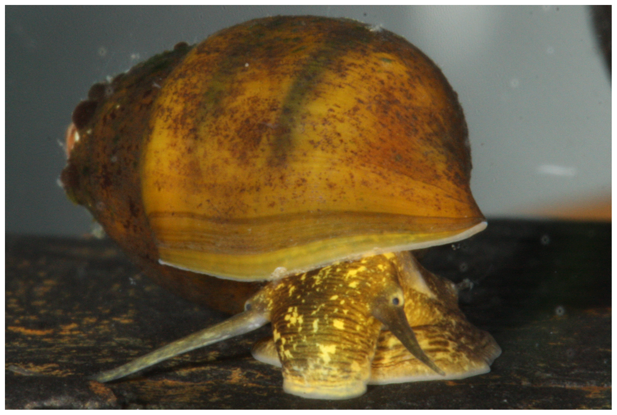 A live Elimia clara from the Cahaba River, Shelby County, Alabama.